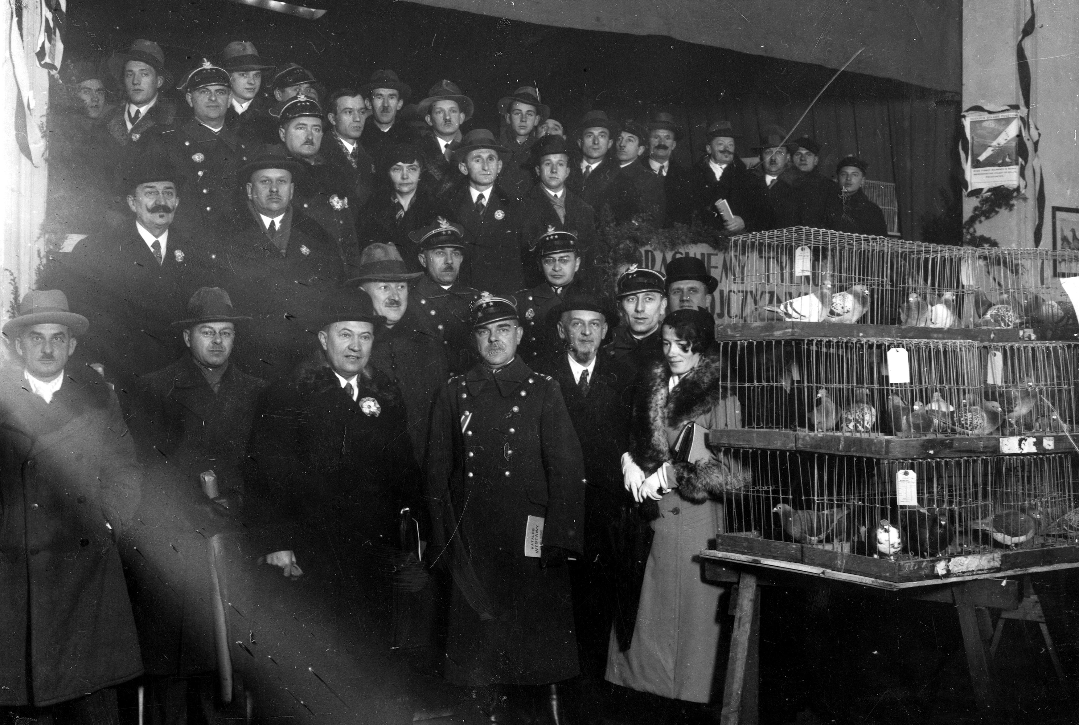 Opening of a poultry exhibition in Warsaw (1932). Visible, among others President Maurycy Trybulski (3rd from the left in the first row).